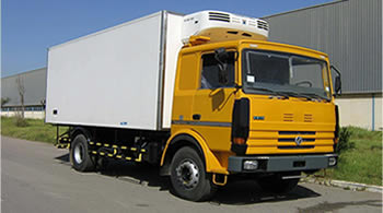 SNVI Truck B260frigo